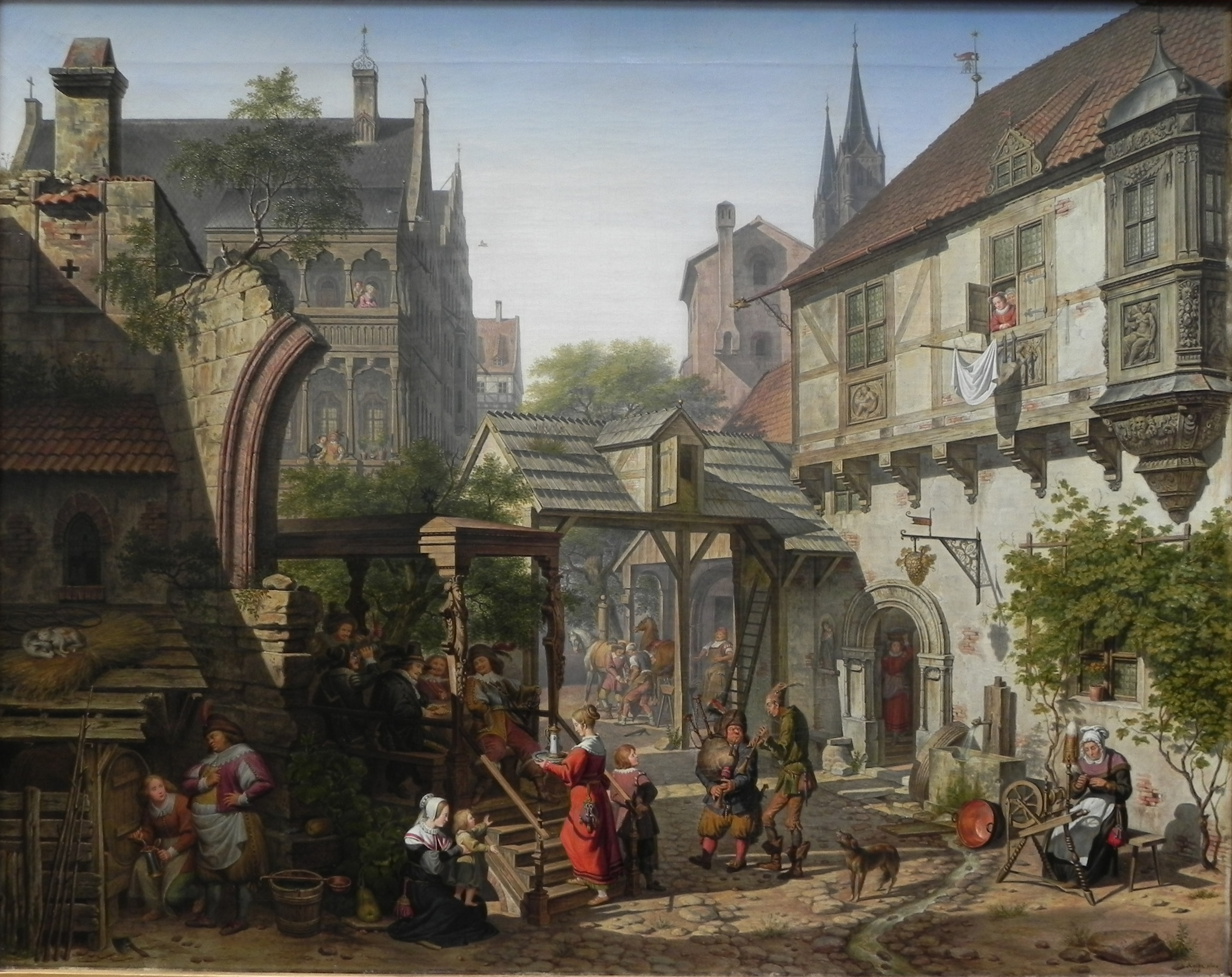 Old German Road